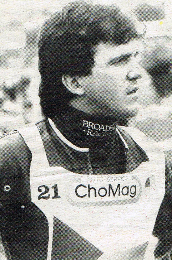 Roman Matousek. Speedway.